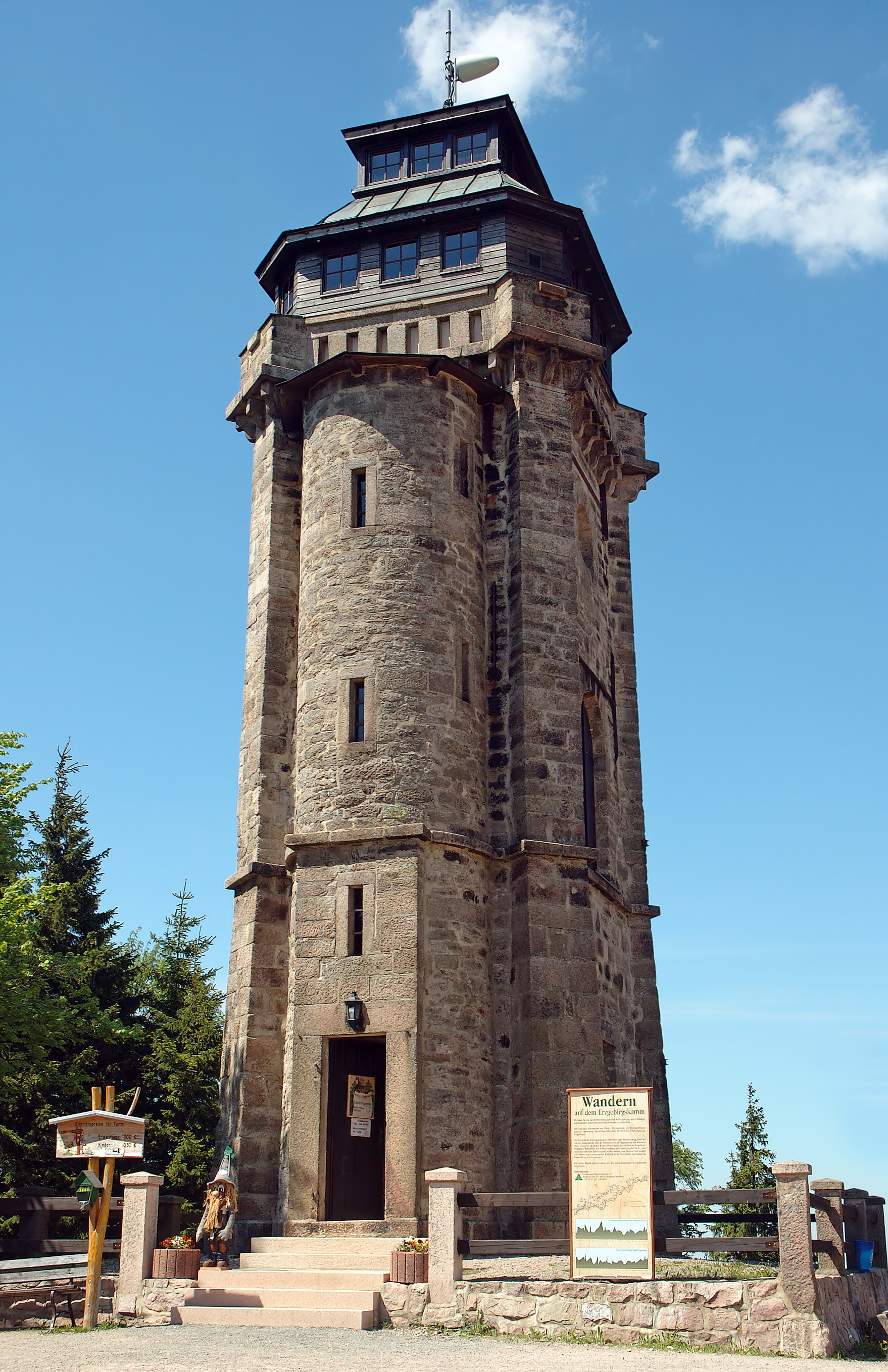 This image shows the observation tower at the Auersberg (Saxony, Germany).